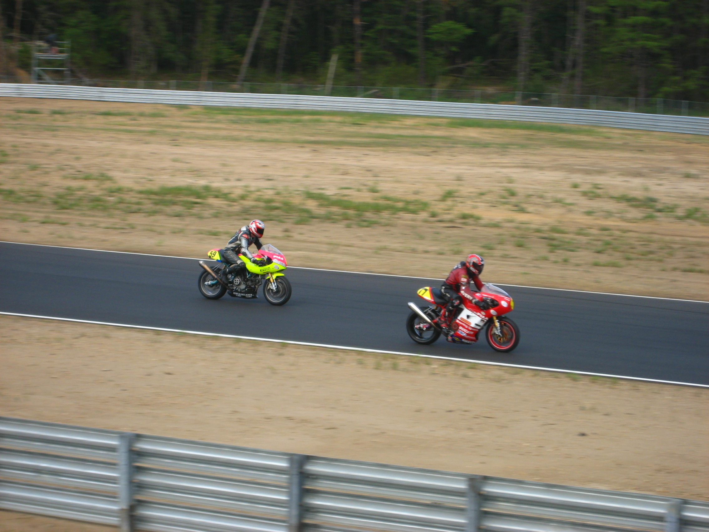 Competitors in the SunTrust Moto-ST Series at New Jersey Motorsports Park.